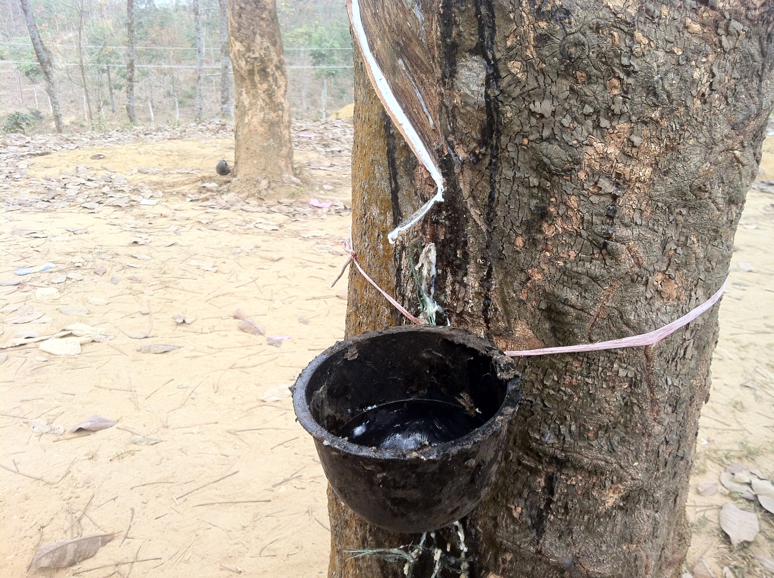 rubber tree in lakkatura tea garden, sylhet